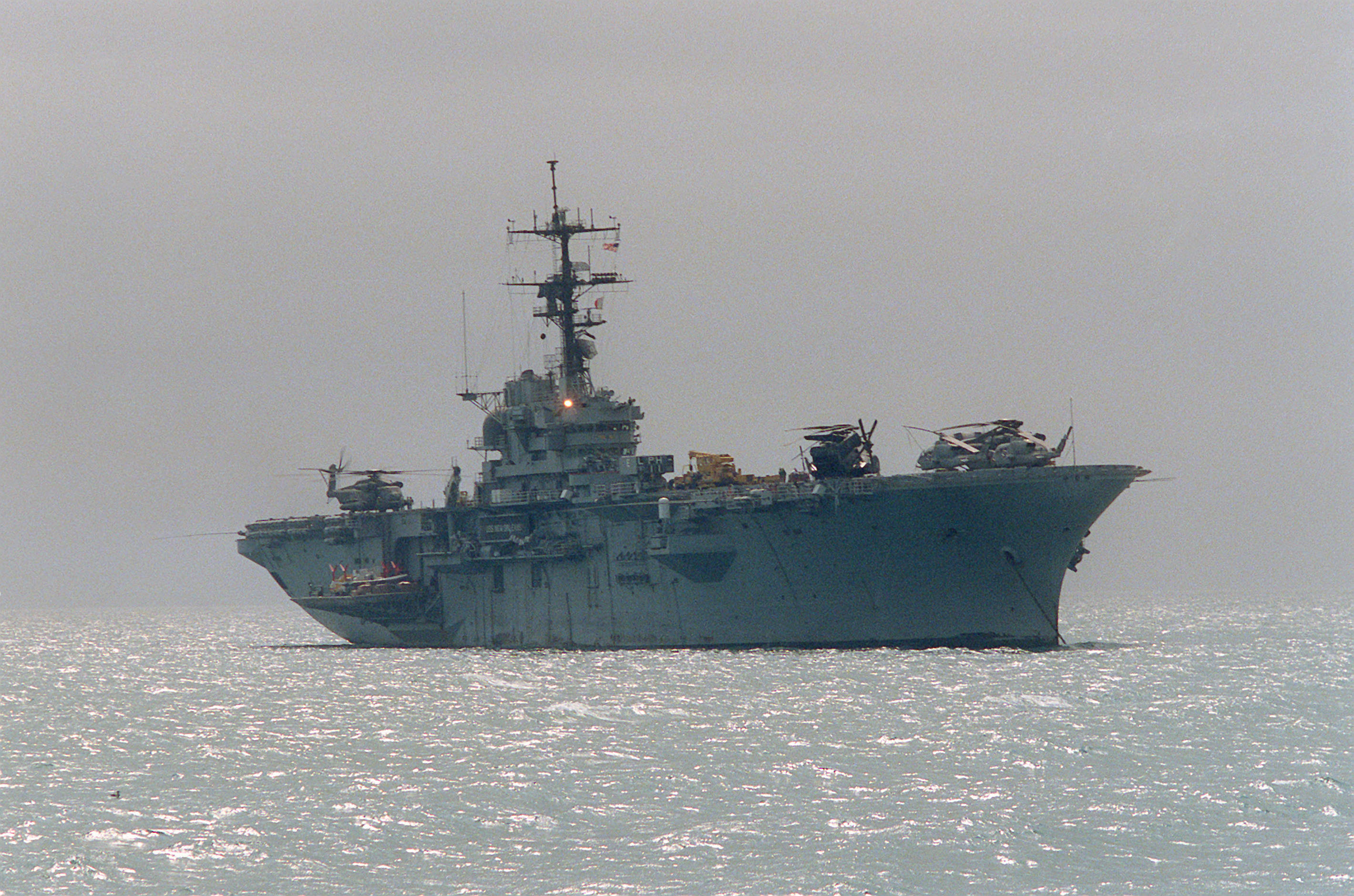 A starboard bow view of the amphibious assault ship USS NEW ORLEANS (LPH-11) as it lies at anchor with several MH-53E Sea Dragon helicopters and AH-1 Sea Cobra helicopters on its flight deck. The NEW ORLEANS is serving as a platform for mine-clearing operations in the gulf following Operation Desert Storm.